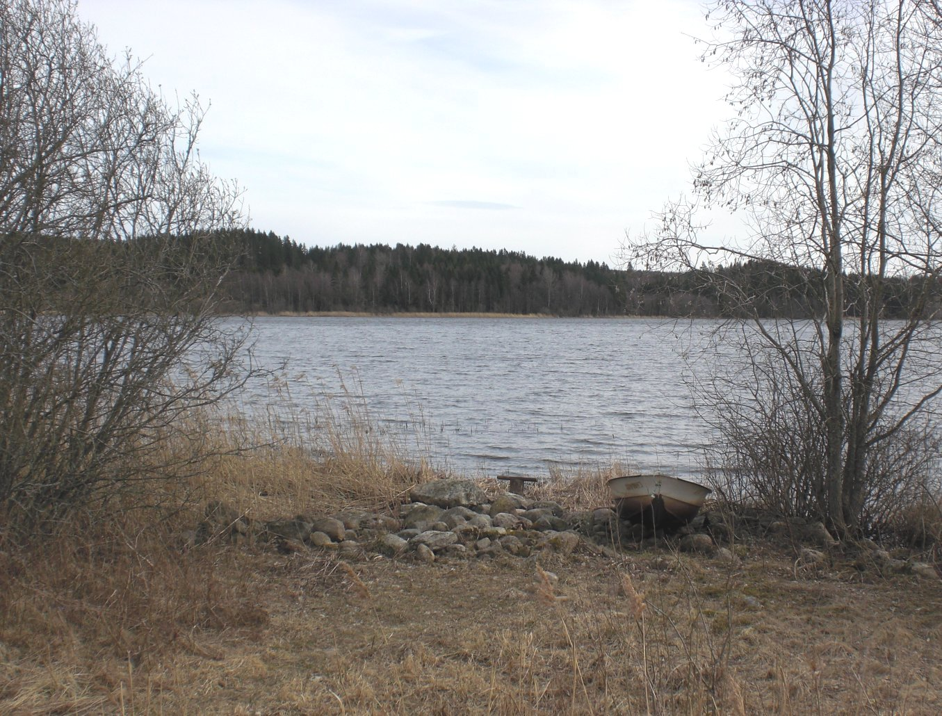 Nærevannet, view from north, early springNorsk bokmål: Nærevannet sett fra nord, tidlig vår